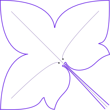 Technical Drawing. Floral motive showing Symmetry